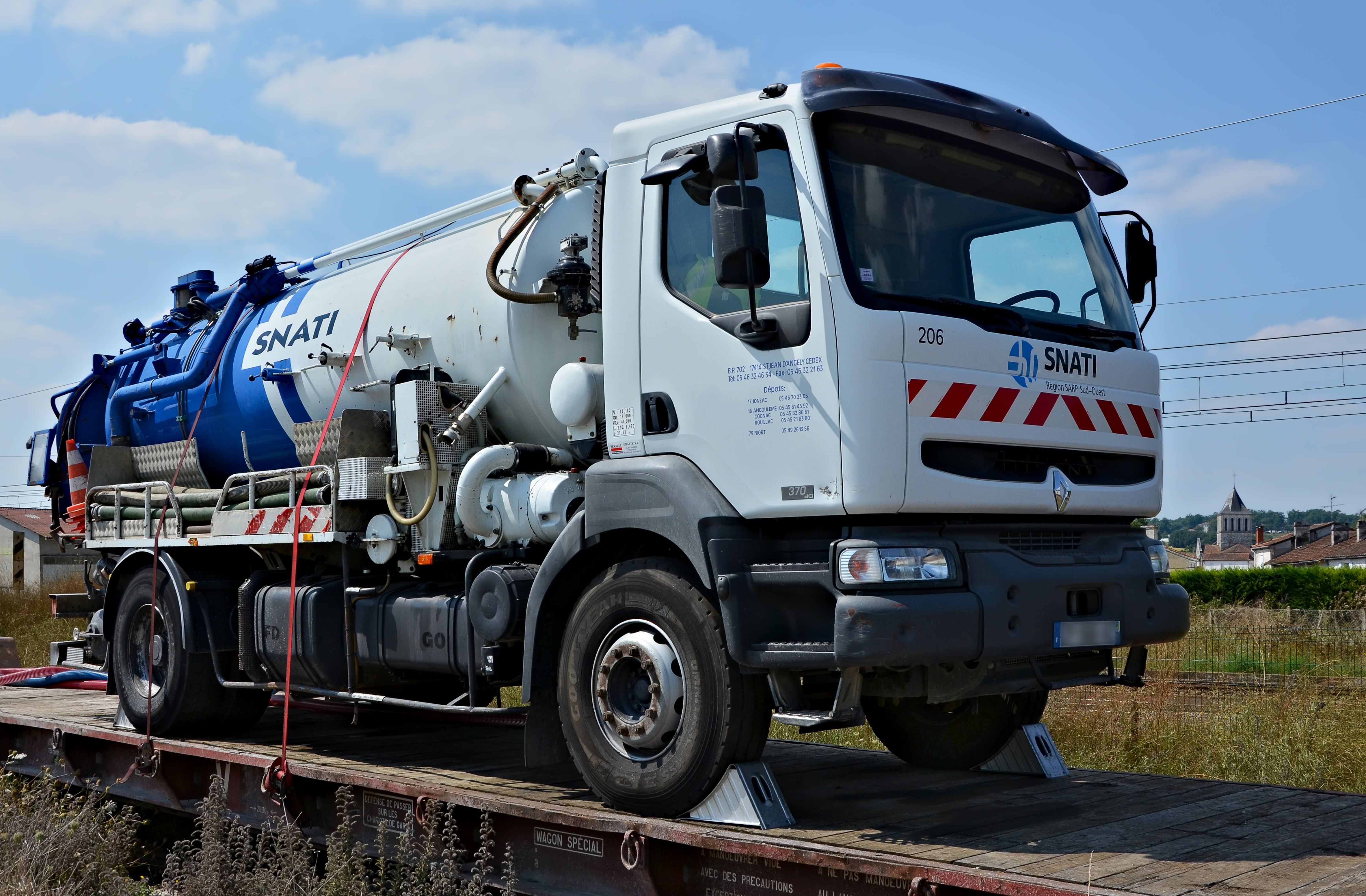 Renault truck 370 dci being transported by train. Montmoreau station, Saint-Amant, Charente, France.